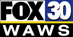 Former station logo for WAWS (now WFOX-TV)